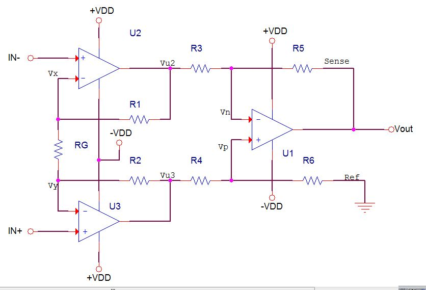 Instrumentation Amplifier circuit